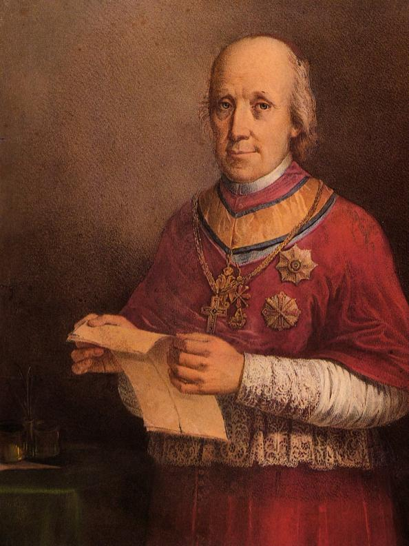 Portrait of the hungarian archbishop János Tamás Neuschel (1780-1863)